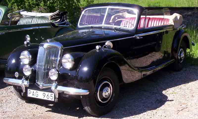 Riley RMD 2½-Litre Drophead Coupé 1950